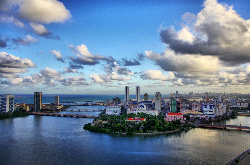 Recife and its bridges - Pernambuco, Brazil